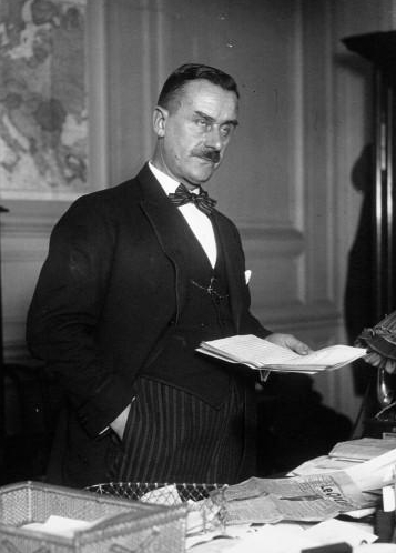 German writer Thomas Mann (1875-1955) in 1926.